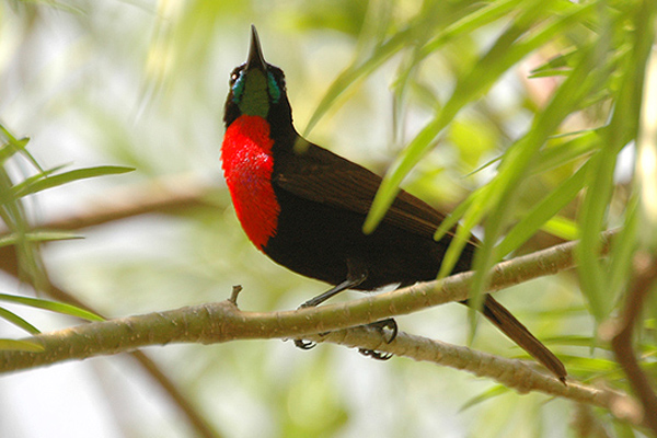 Uganda Scarlet-chested Sunbird (Nectarinia senegalensis) Queen Elizabeth NP, W. Uganda